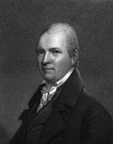 Portrait of John M. Mason